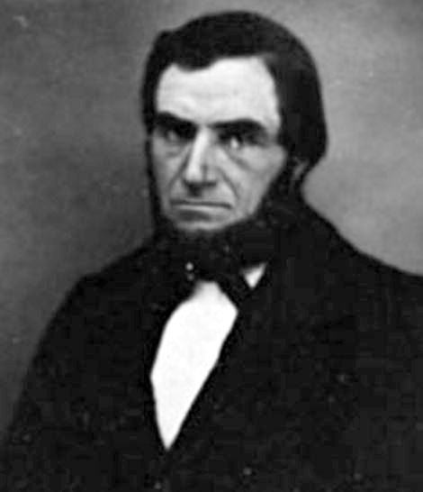 Photograph of Benjamin Franklin Grouard